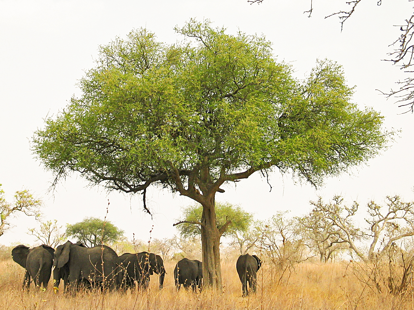 Elephants around an acacia (?) tree in Waza Park, Extreme North Province, Cameroon.